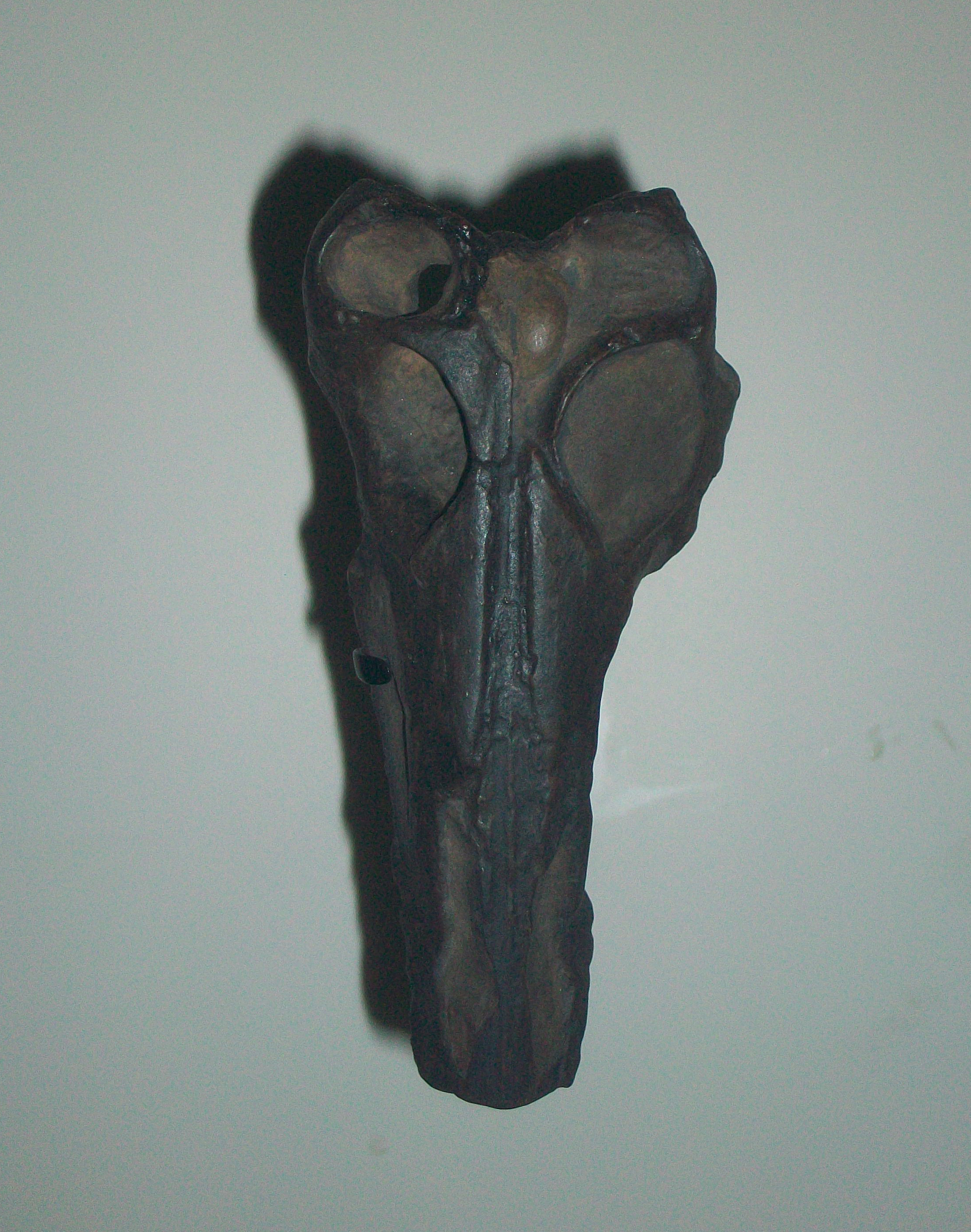 Cast of the skull of Parapsicephalus purdoni (specimen AMNH 1694) in the American Museum of Natural History.